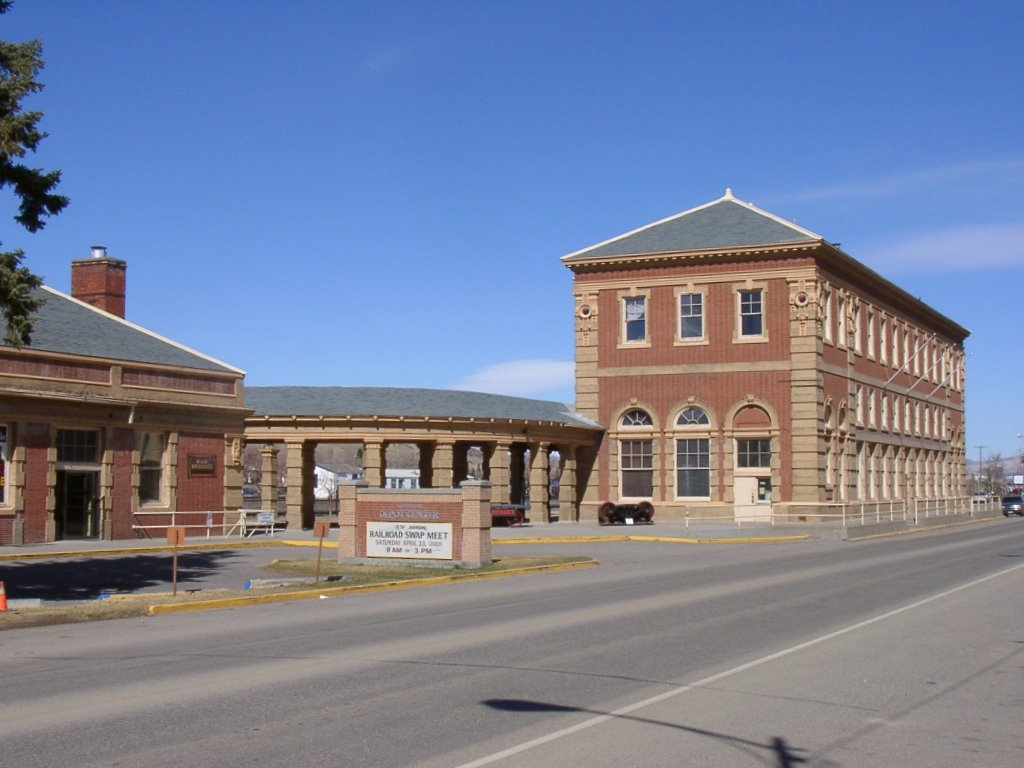 Historic Northern Pacific Depot in Livingston, Montana, for article use. Photo taken 2005 and released by photographer Chris Rodgers into public domain.